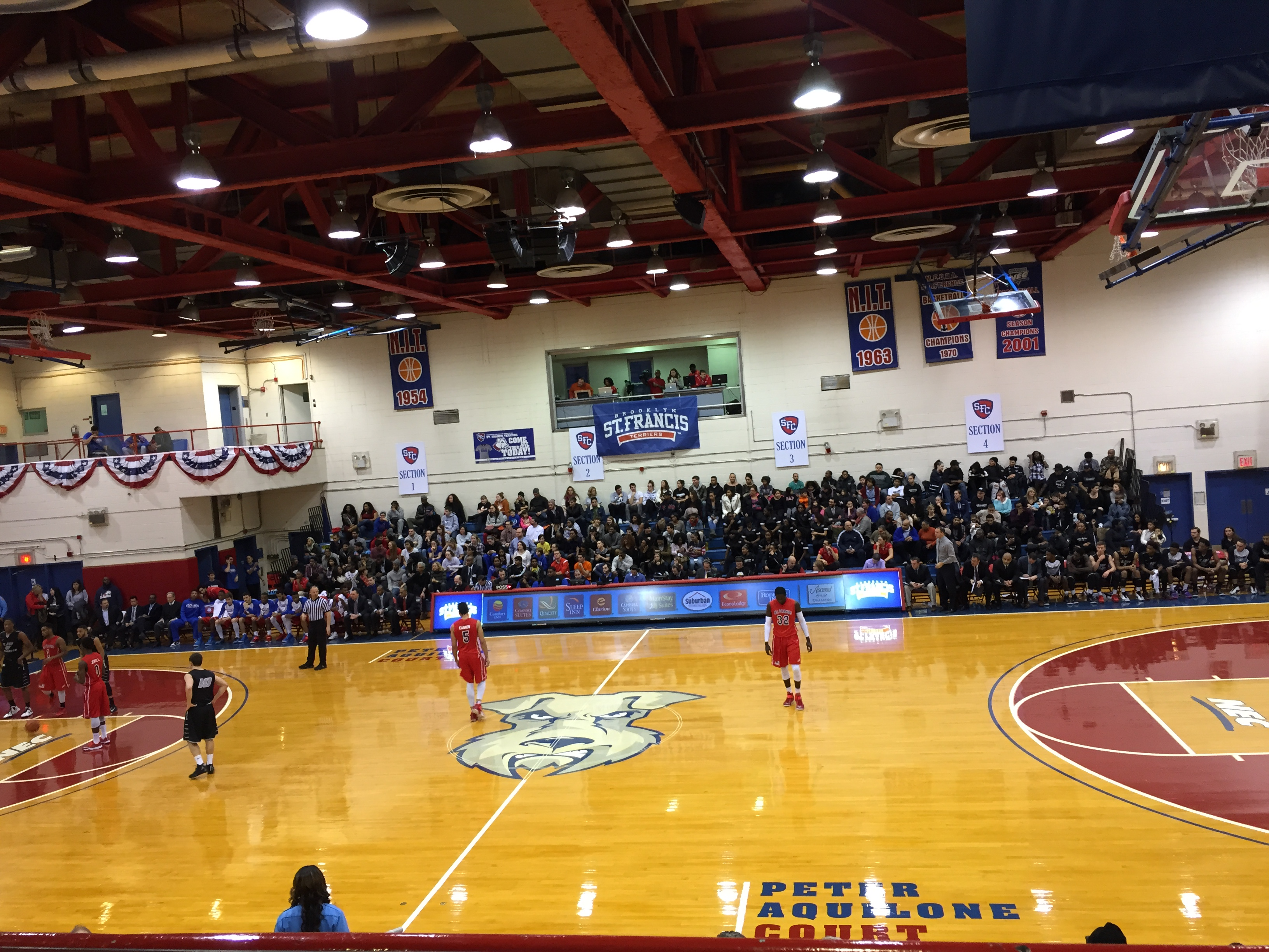 Center Court at The Pope on January 31, 2015 as SFC's Tyreek Jewell shoots free throws.